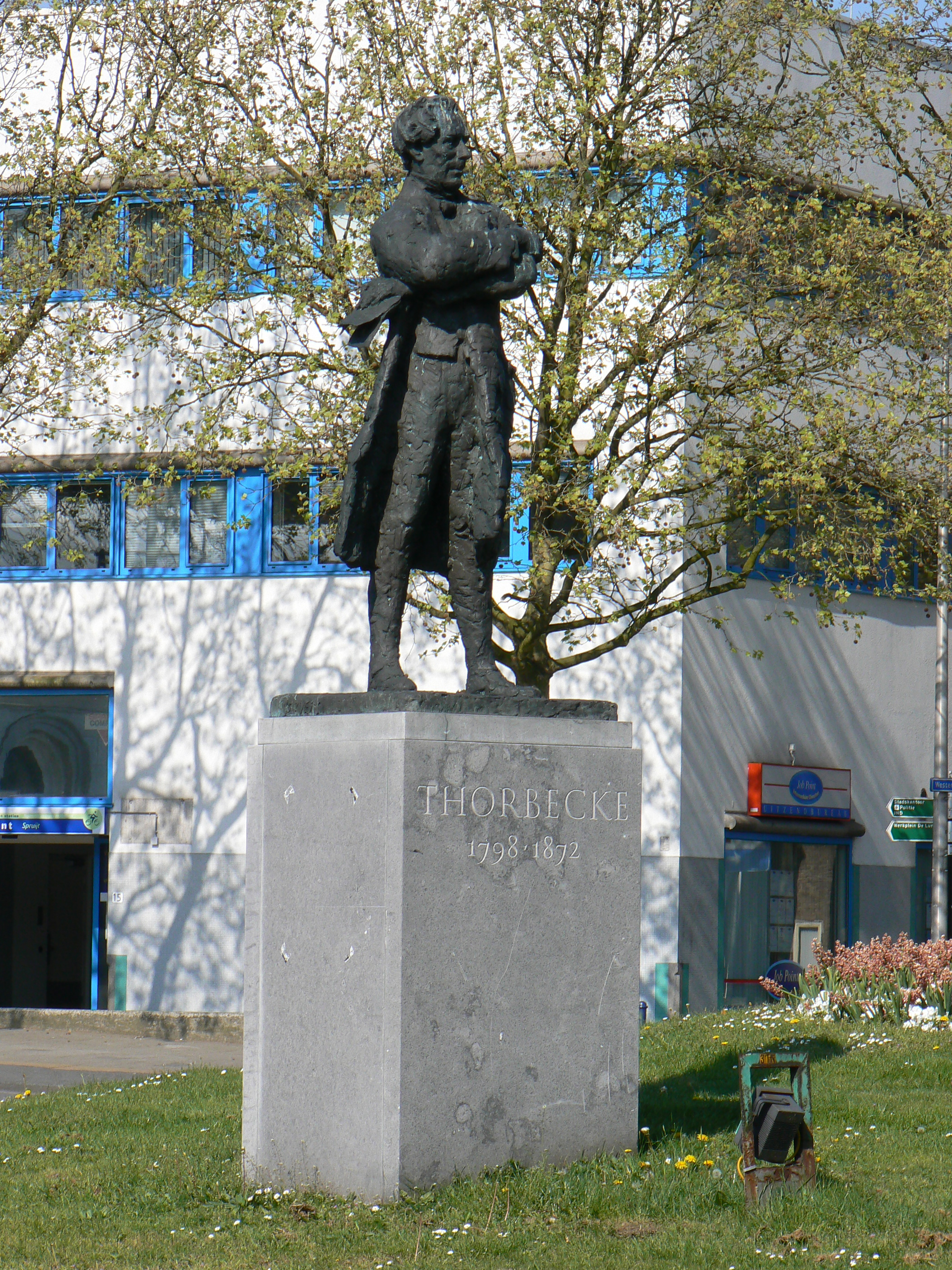 Statue of Thorbecke (1992) by Hand Bayens in Zwolle/The Netherlands.